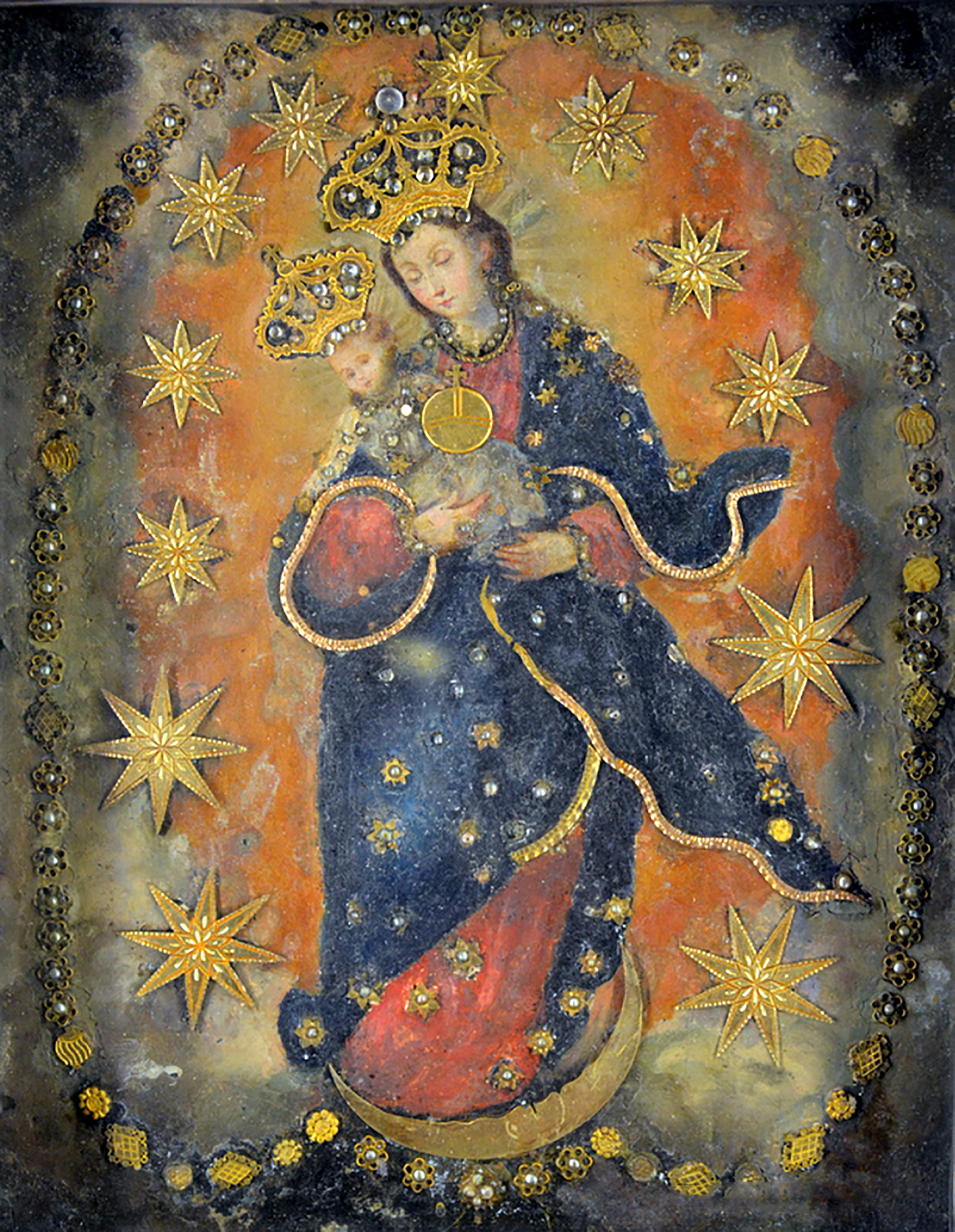 Pronto Soccoro de Binondo